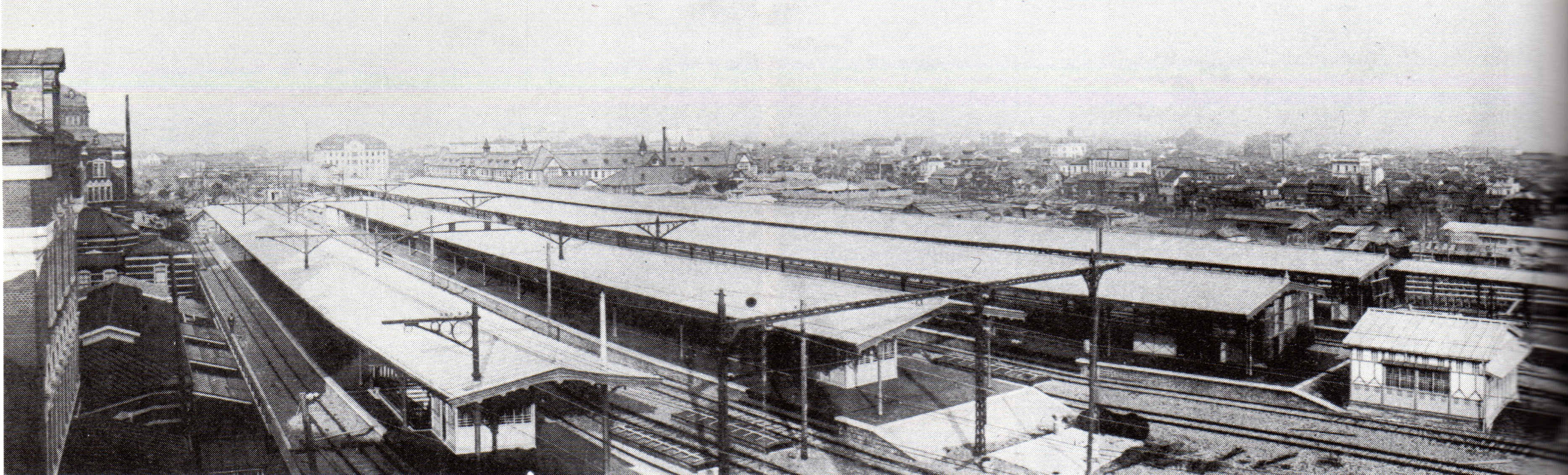 Platforms of Tokyo station in 1914.